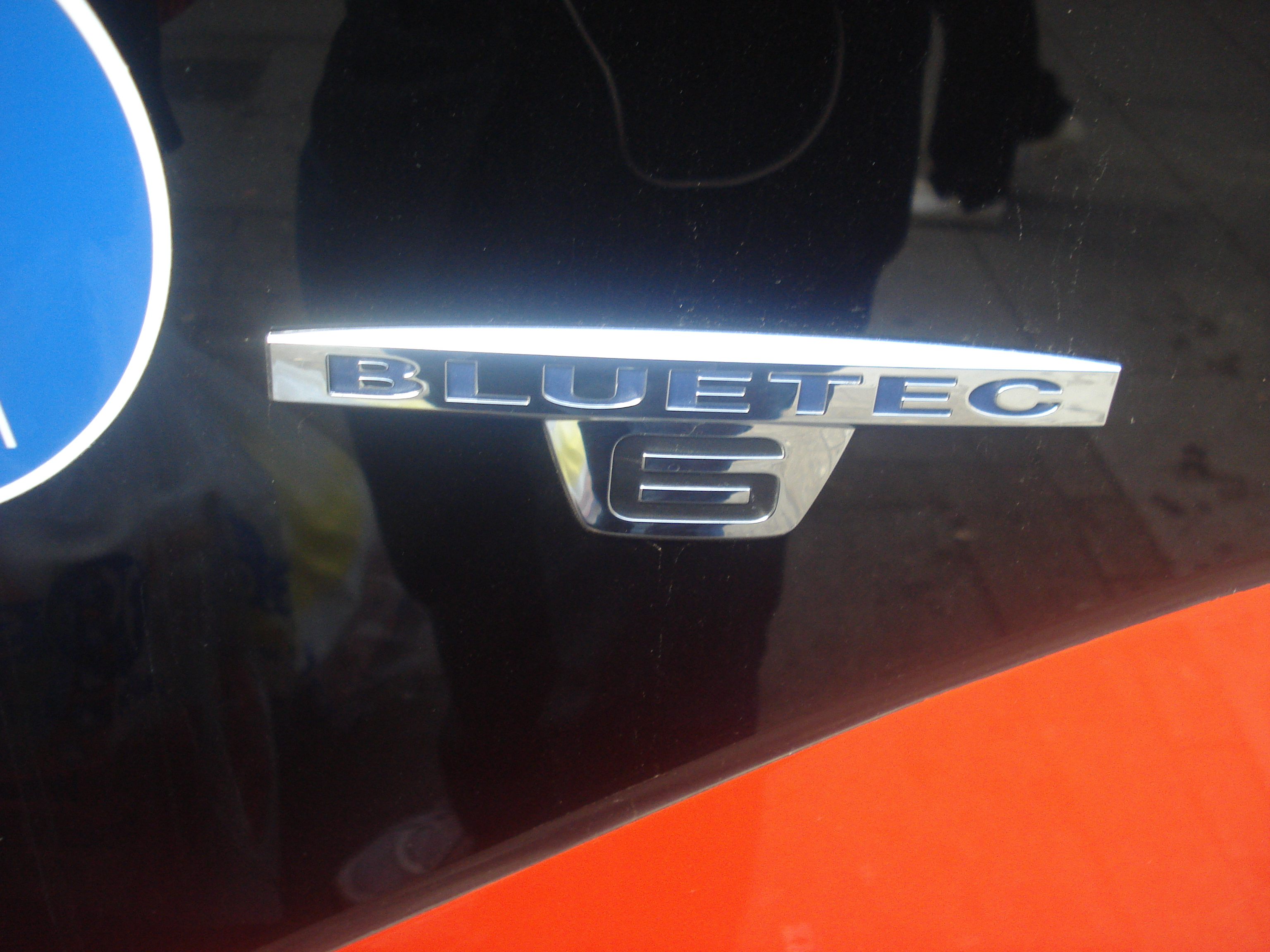 Bluetec 6, ooooh..